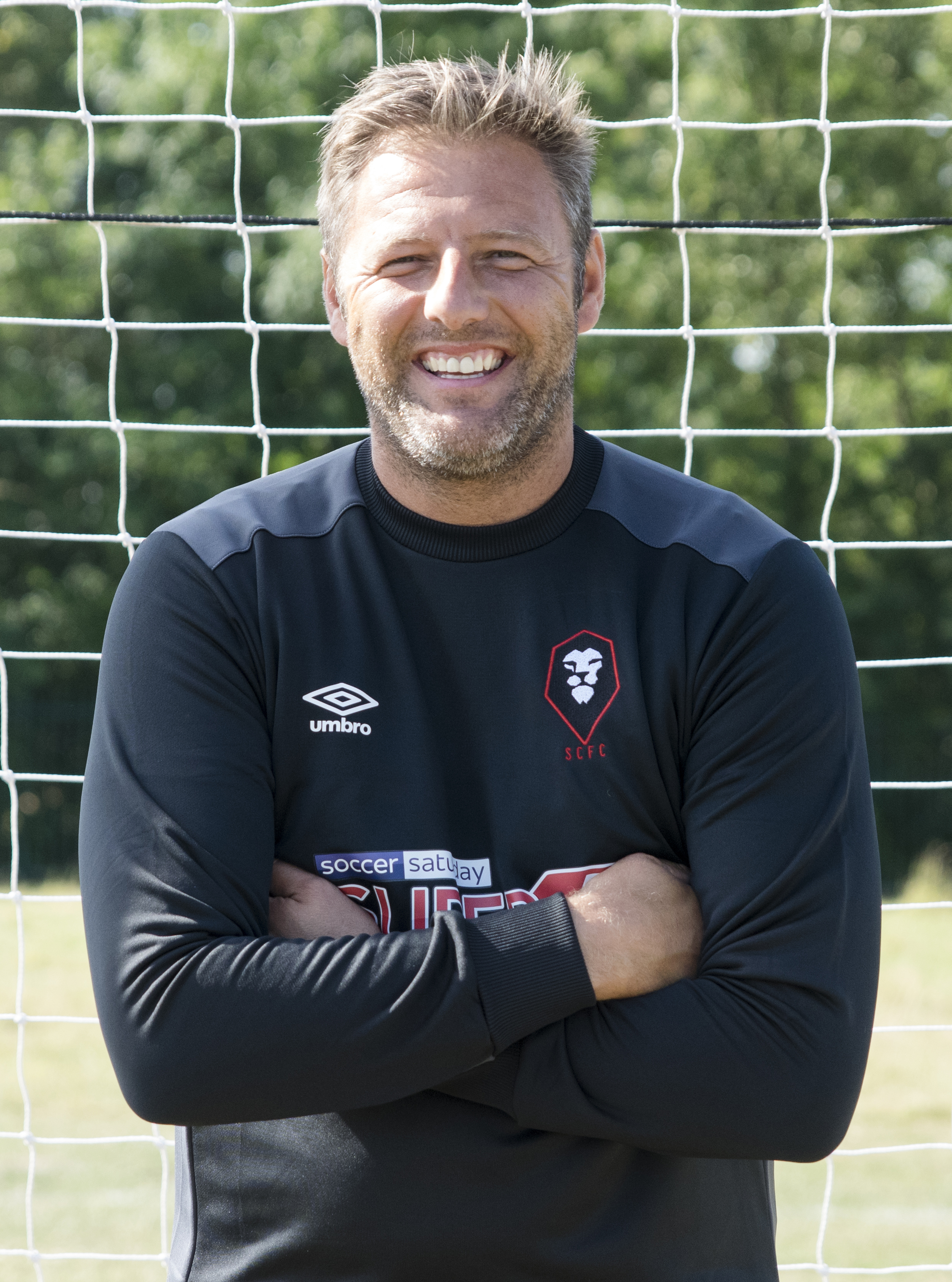 Carlo Nash - Salford City goalkeeper manager